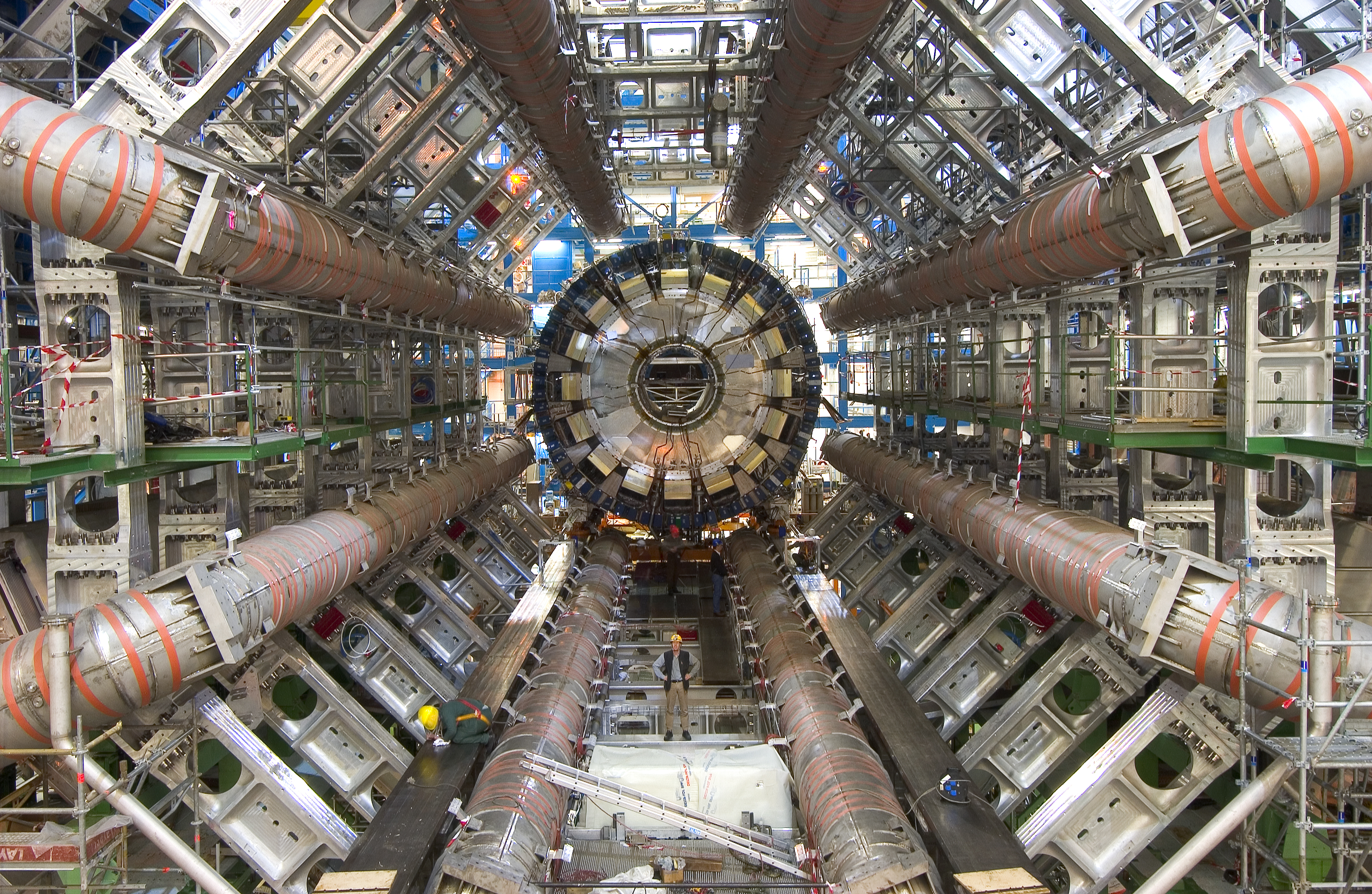 The eight toroid magnets can be seen surrounding the calorimeter that is later moved into the middle of the detector. This calorimeter will measure the energies of particles produced when protons collide in the centre of the detector.